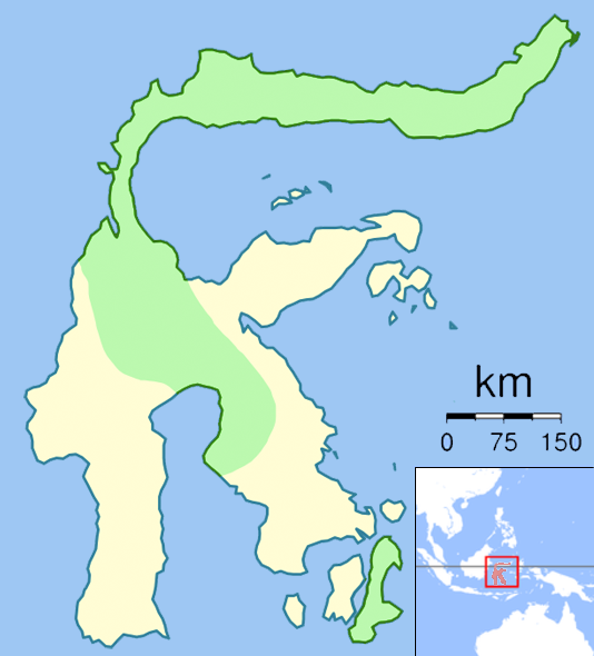 Aramidopsis plateni distribution map based on map at Aramidopsis plateni entry on the IUCN Red List Base map is Commons file File:542px-sulawesi_blank_map.png